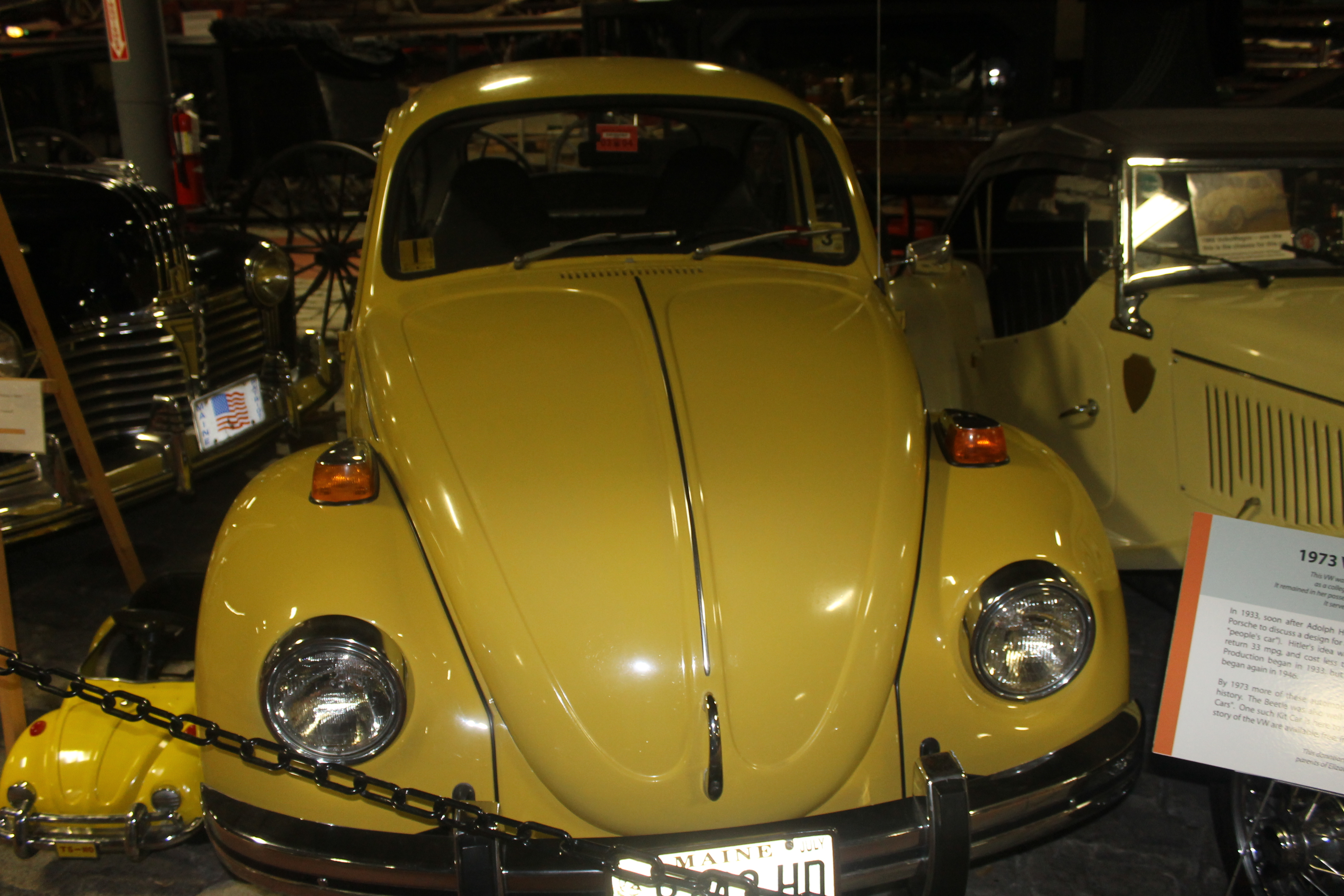 I took photo with Canon camera of 1973 Volkswagen Beetle at Cole Land Transportation Museum in Bangor, ME.